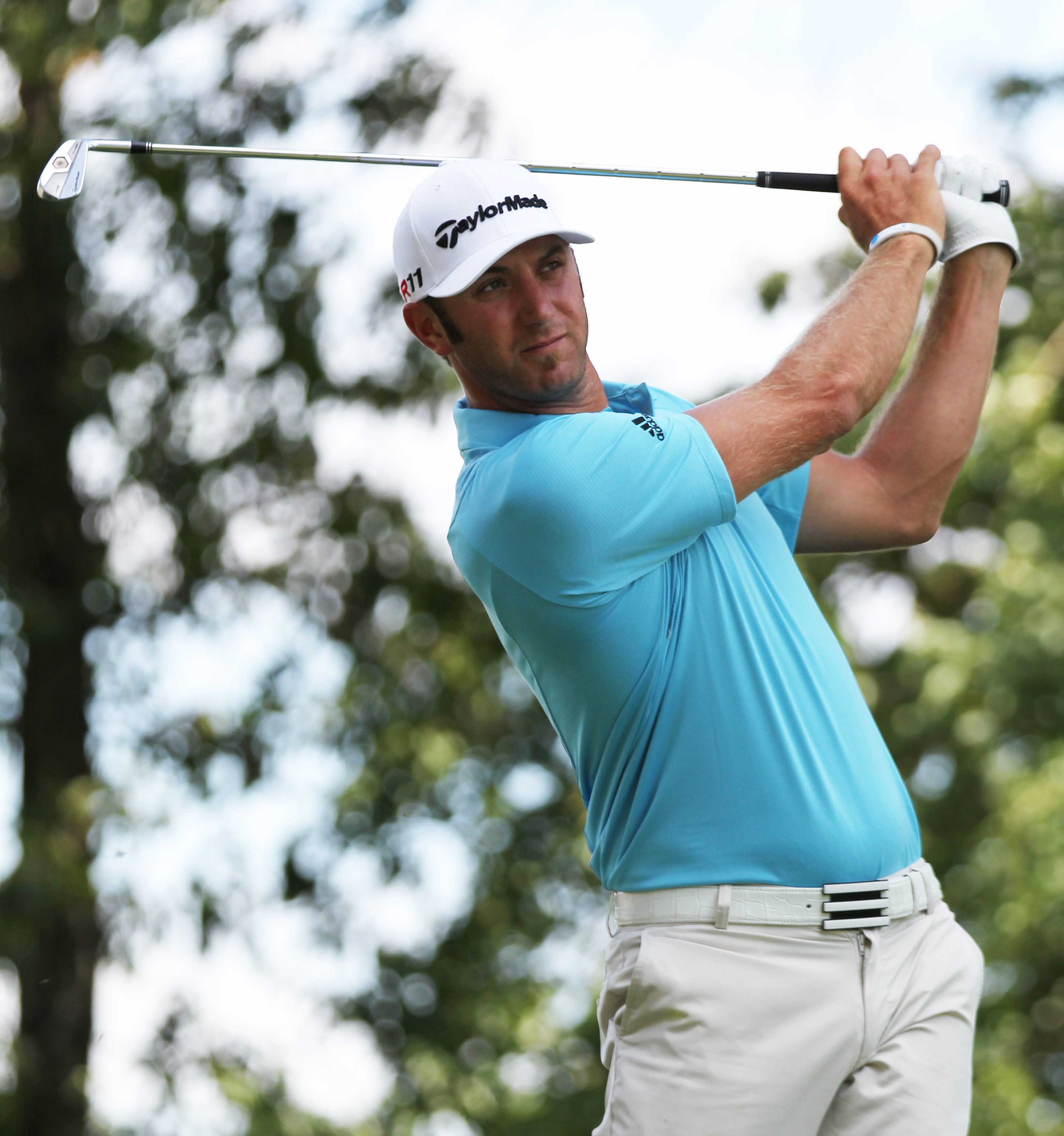 U.S. Open Golf Practice Round June 13, 2011